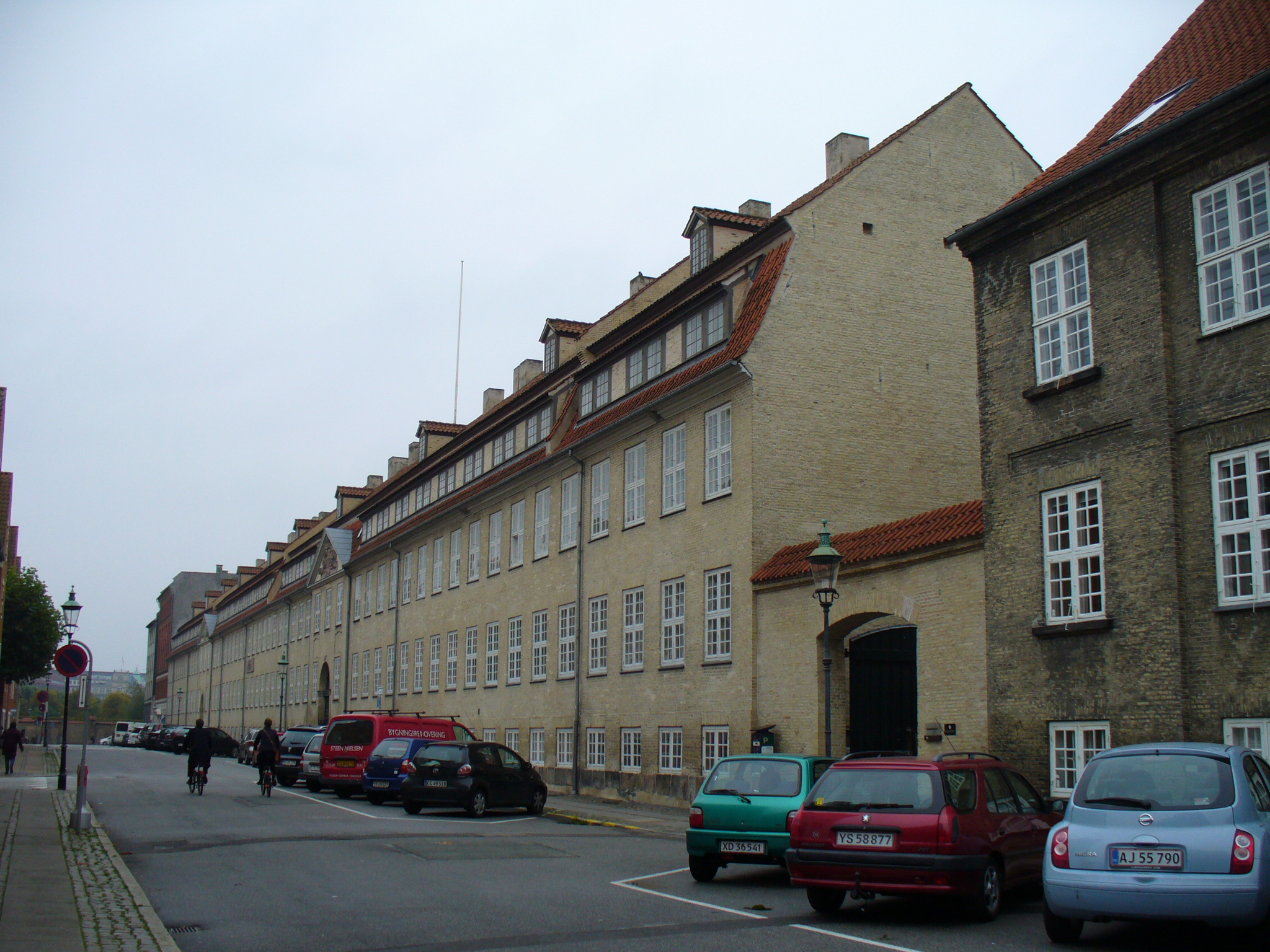 The former military hospital Garnisonshospitalet at Rigensgade in Indre By in Copenhagen.